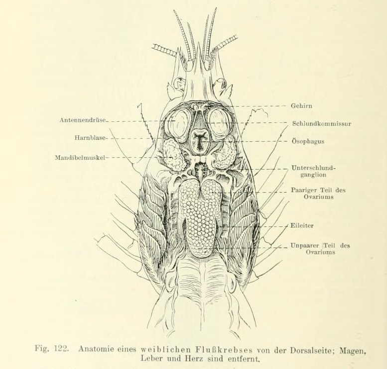 Inner anatomy of a female European crayfish (Astacus astacus).